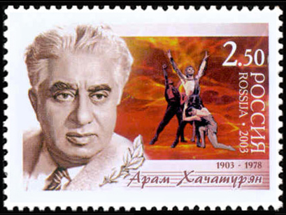 Stamp of Russia "The 100th birth anniversary of composer A.I.Khachaturyan(1903-1978)", 2003